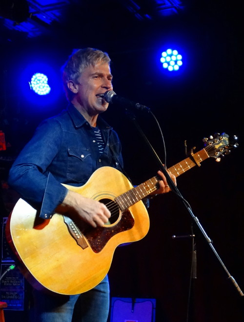 Matthew Caws of Nada Surf performing an acoustic show at The Saint in Asbury Park, NJ, Oct 2017. Photo by LHCollins.